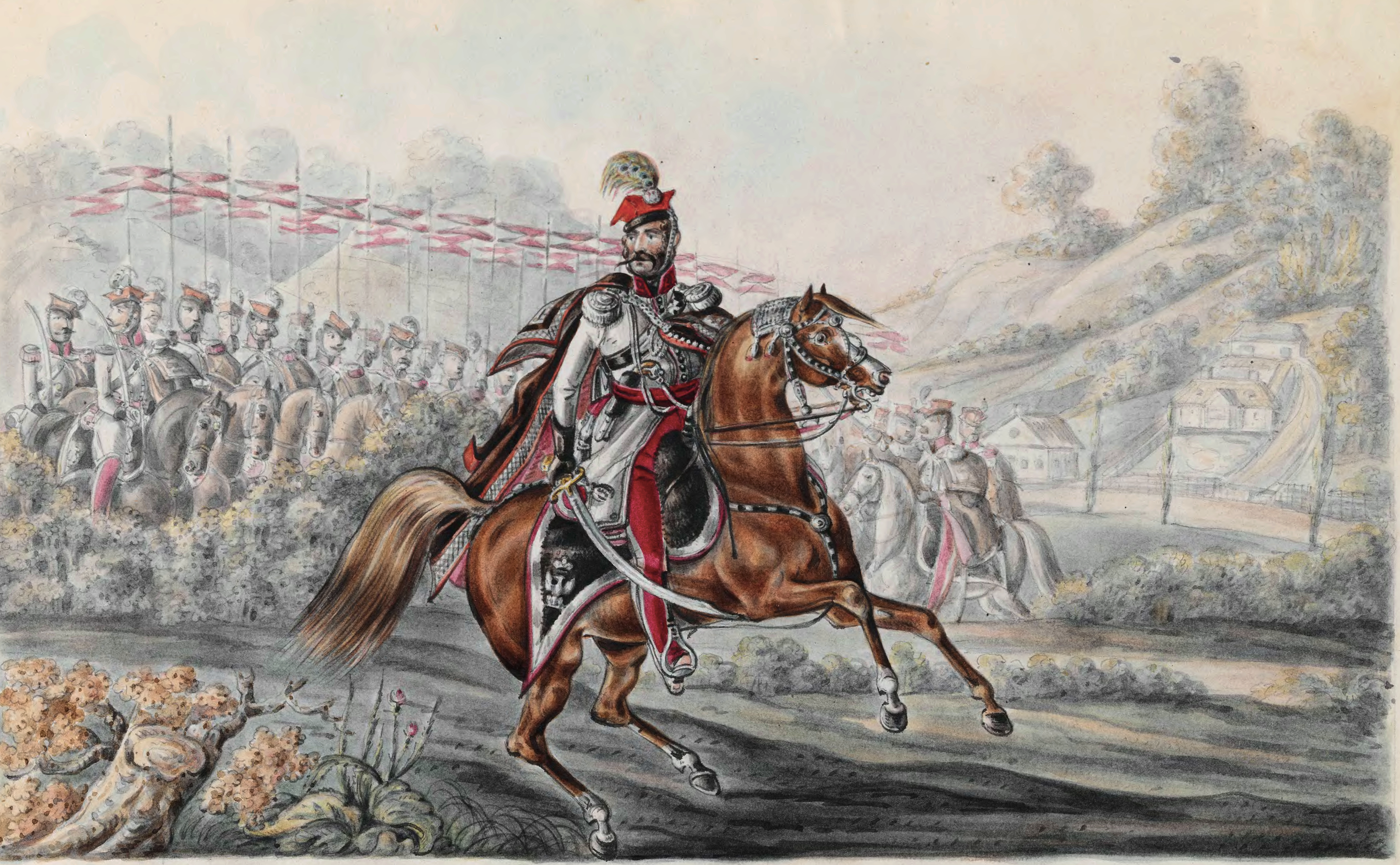 2nd Regiment of Kraków Cavalry of November Uprising